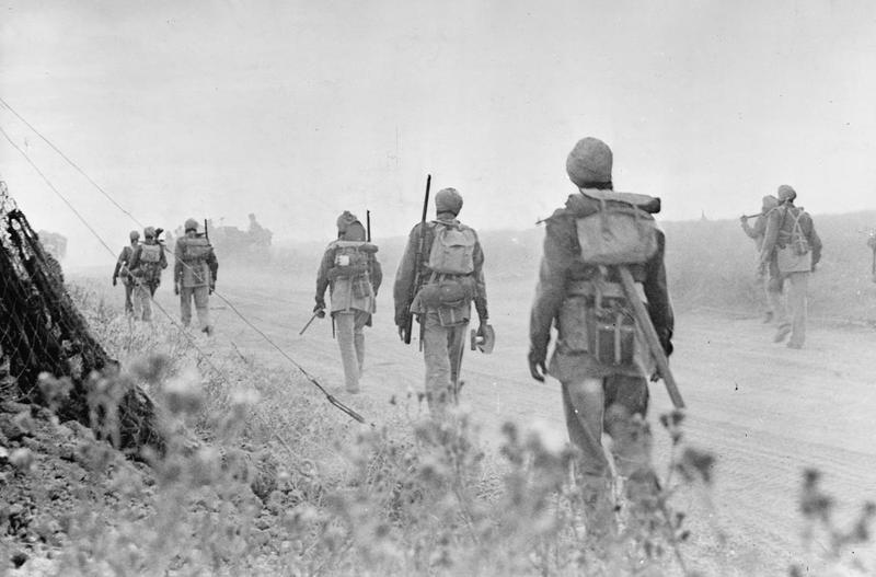 The Fourth Indian Division in Tunisia As the sun sets the Fourth Indian Division leave ther last positions at the Eighth Army front and move forward to join the First Army. The fourth Indian Division, who had been in at the great battles of the Western Desert, was part of the force which drove down the Medjerda valley to the capture of Tunis and Cape Bon. It was to an officer of this Division that the German General Von Arnim surrendered.